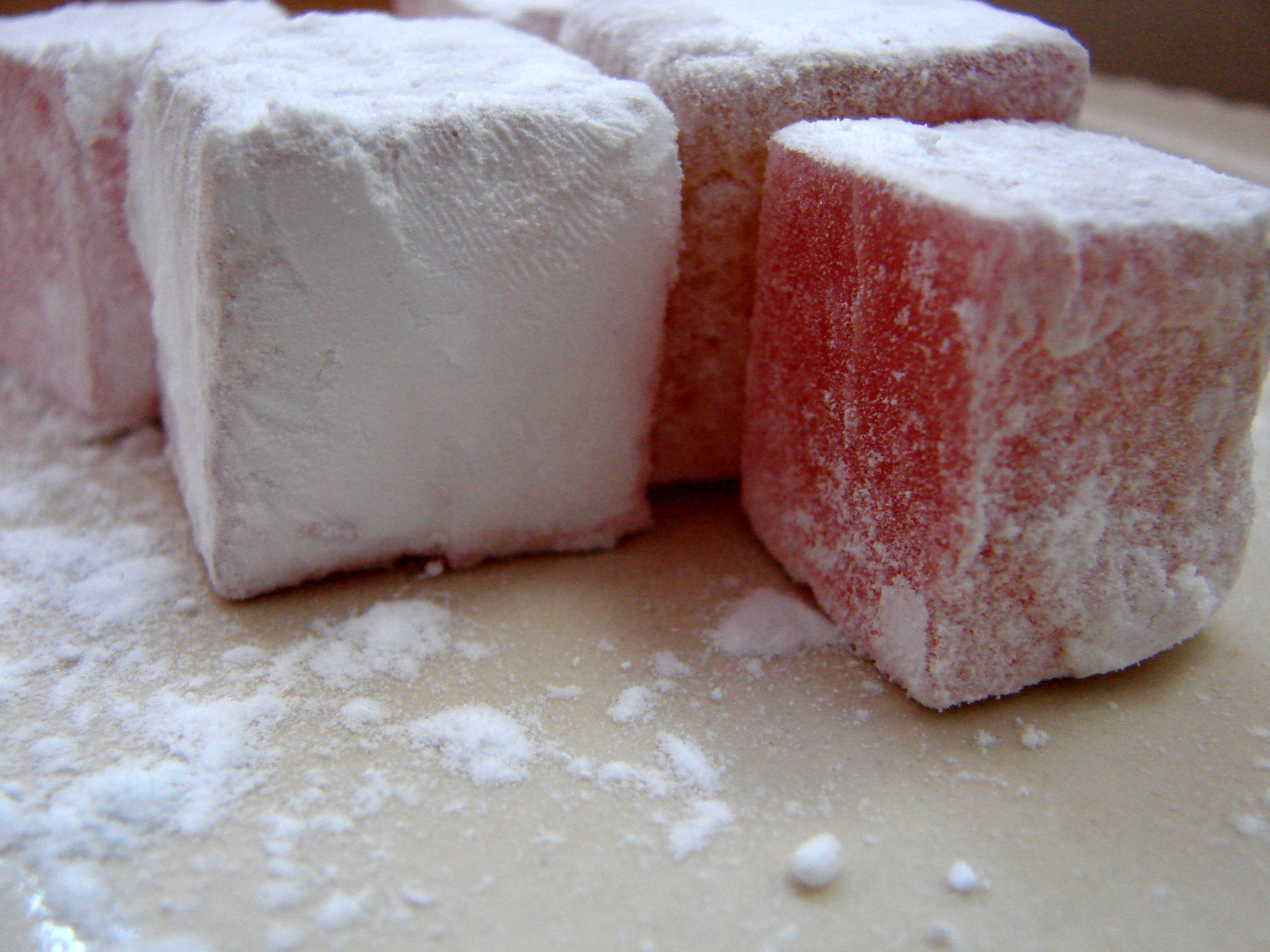 Turkish Delight I took this photo myself.